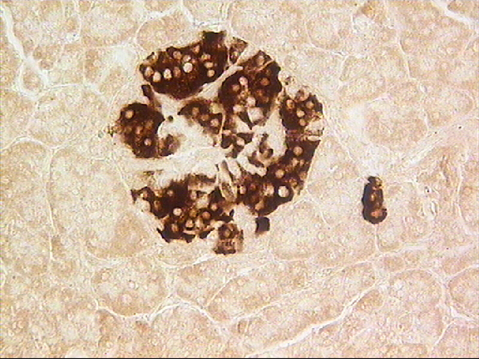 Streptavidin-biotin immunohistochemical technique, antibody to insulin Generated in Laboratory of nervous system development, FSBI Human Morphology SRI RAMS, Moscow